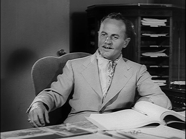 Cropped screenshot of American film producer Darryl F. Zanuck in the trailer for the film The Grapes of Wrath (1940).